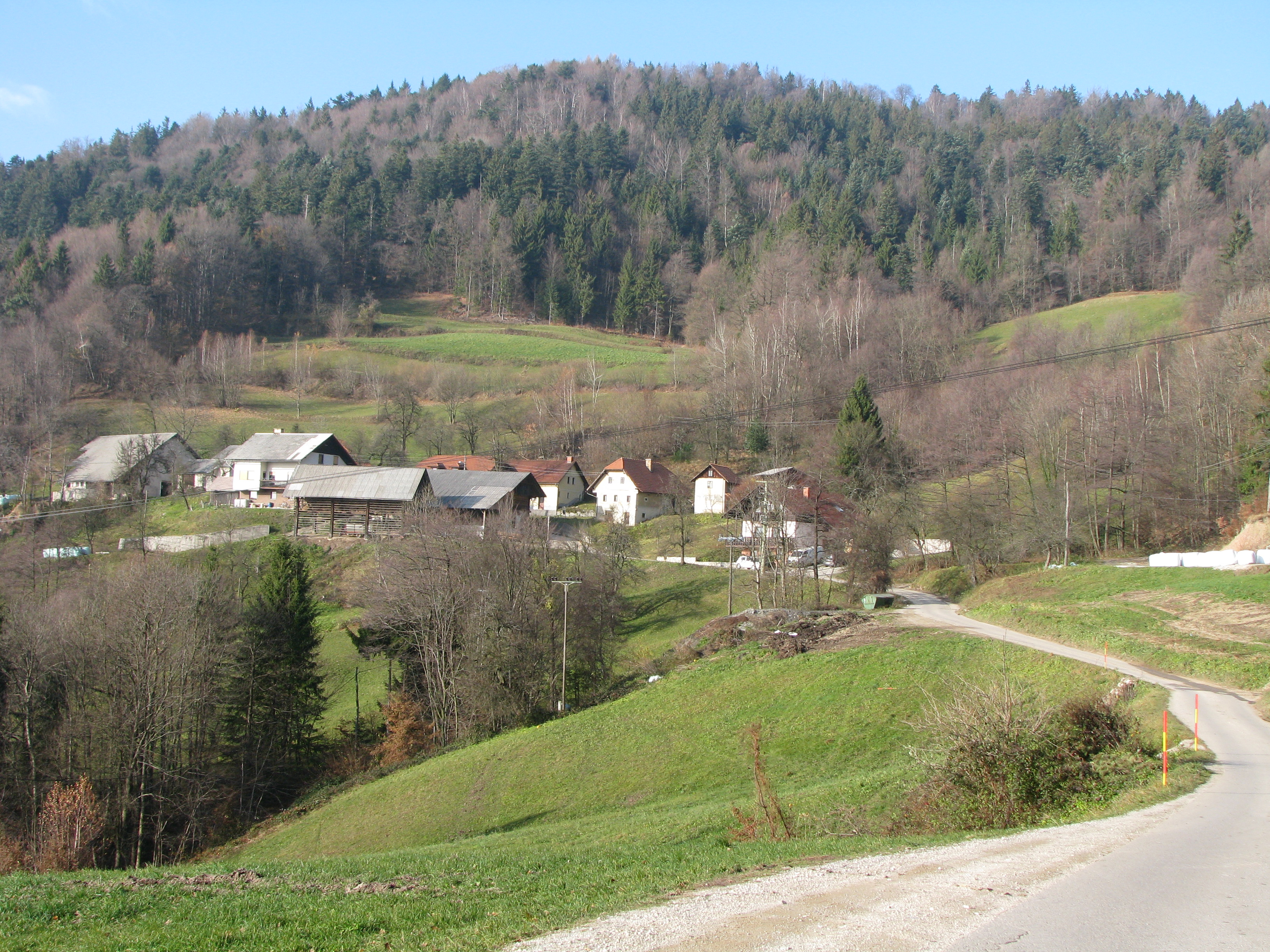 Zgornje Svine, hamlet of Knezdol village